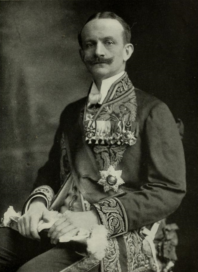 Portrait of Johann Heinrich von Bernstorff